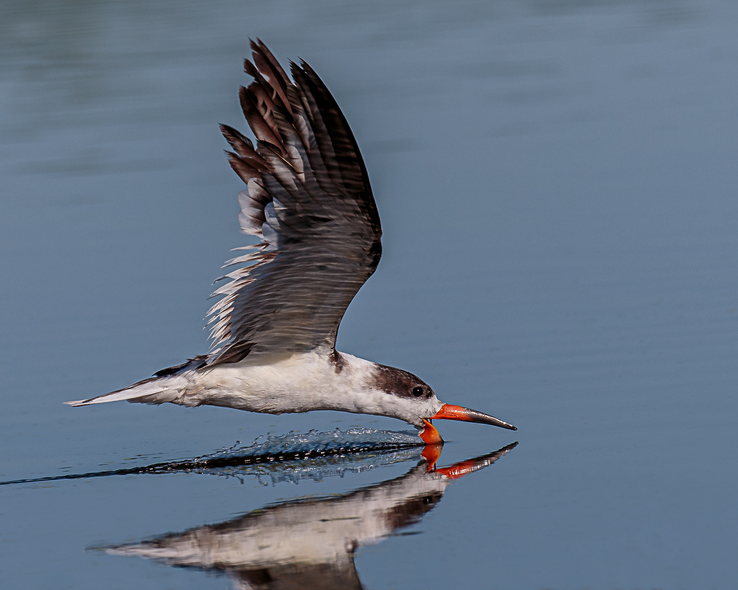 Taken in Naples, Florida.